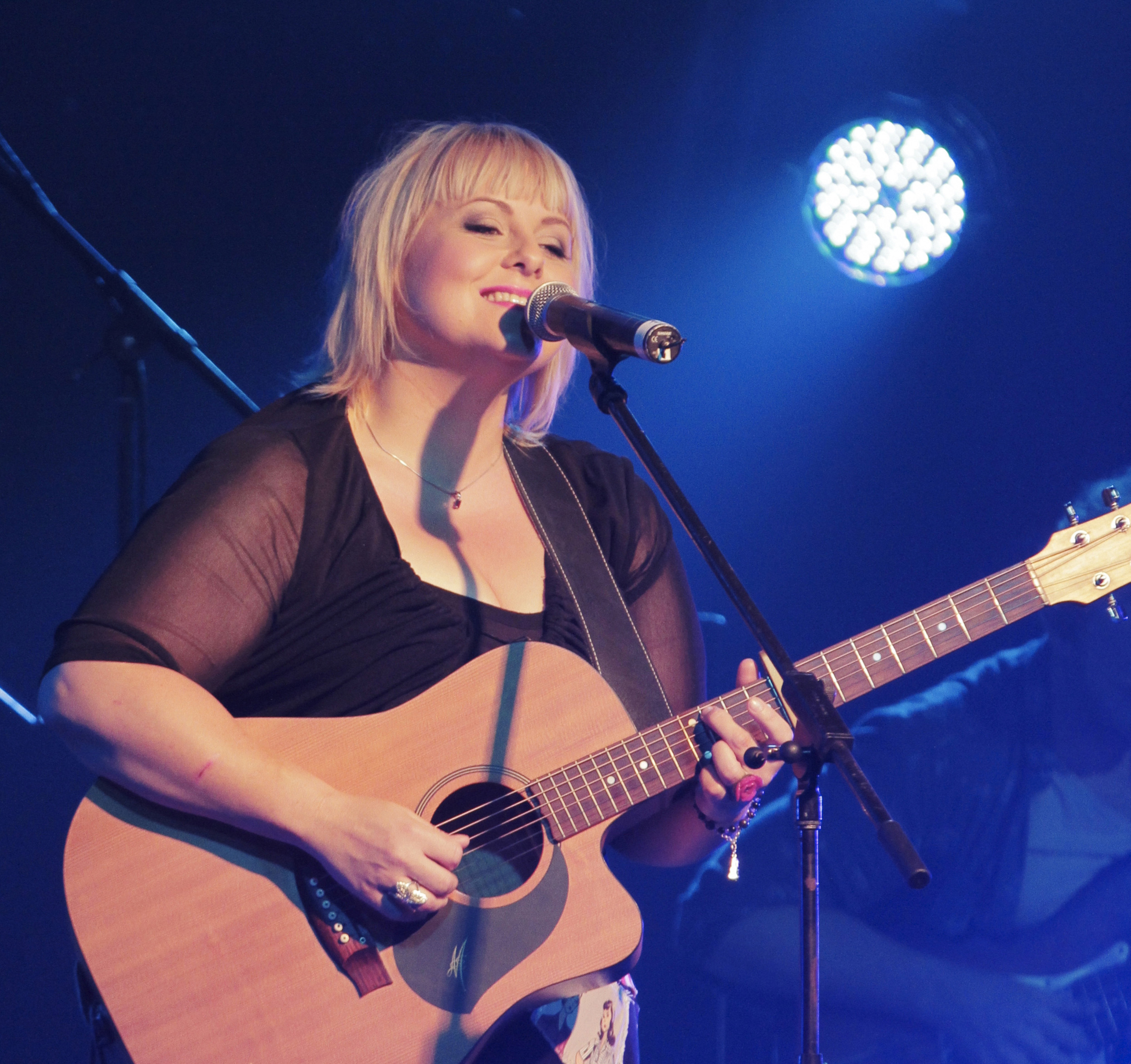 Alt/Country Artist Lyn Bowtell Live at Tamworth Country Music Festival 2014